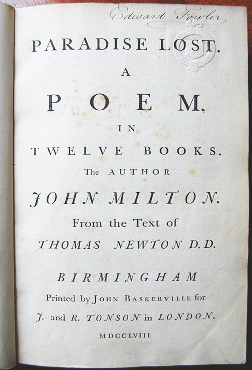 Edition of Paradise Lost by John Milton printed by John Baskerville in 1758.